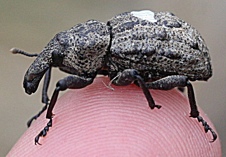 The Canterbury knobbled weevil, Hadramphus tuberculatus, sitting on the tip of a finger.